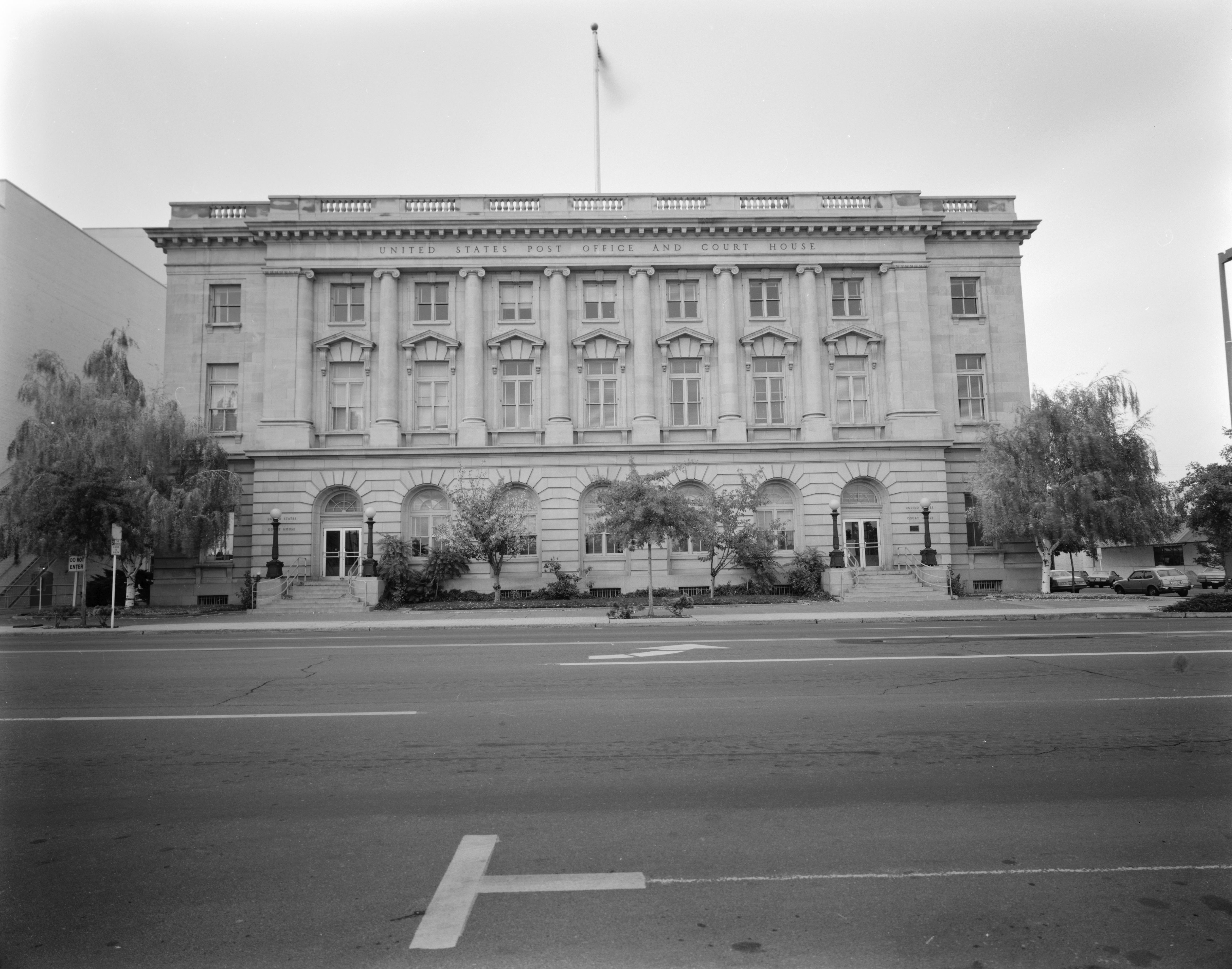 The US Post Office and Courthouse in Yakima, Washington